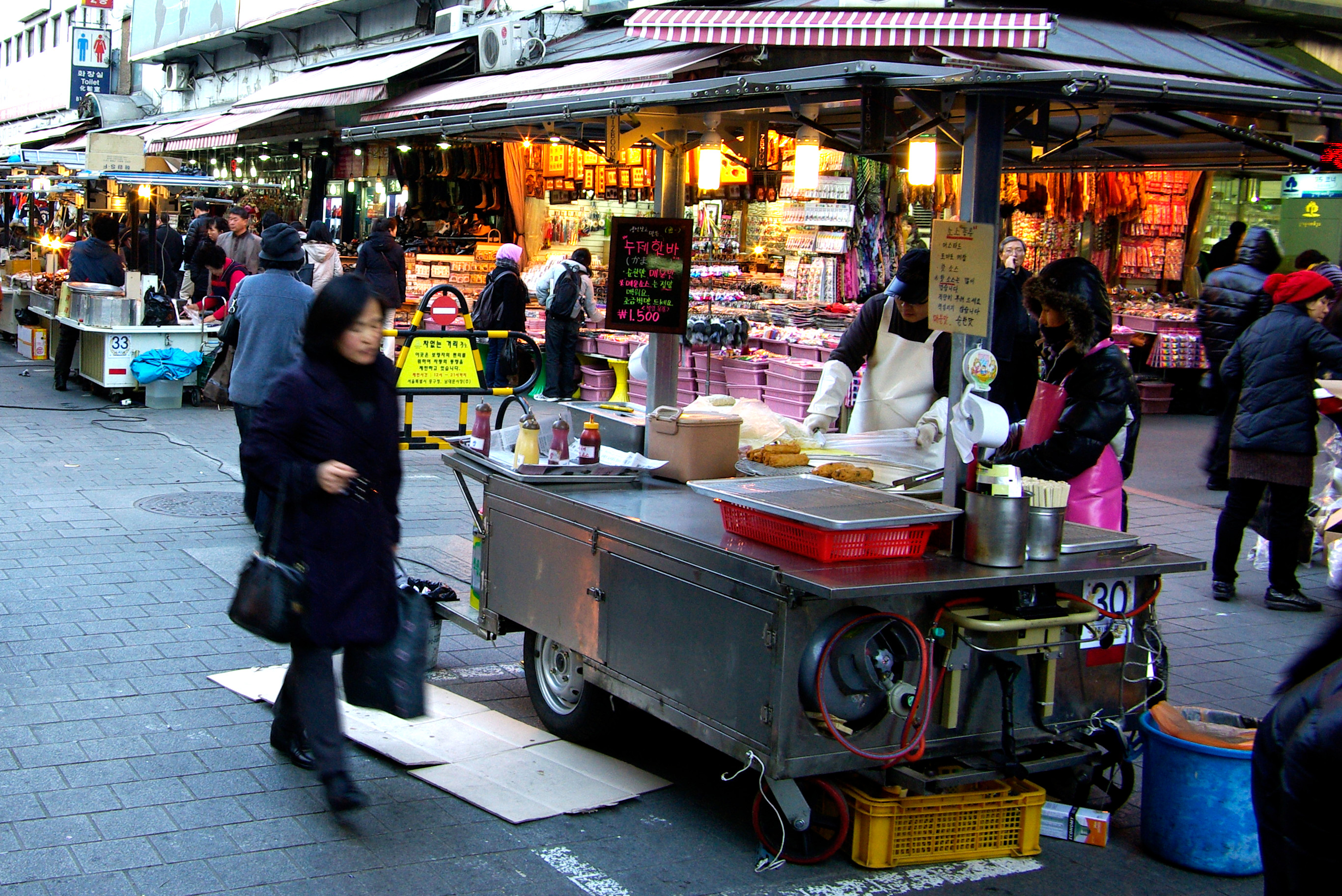 Pojangmacha - street food stall in Seoul, South Korea